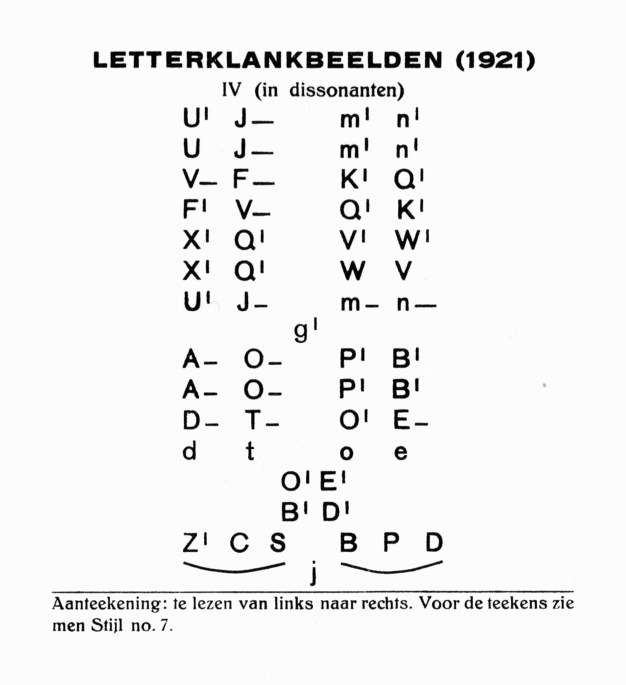 Letterklankbeelden (1921).